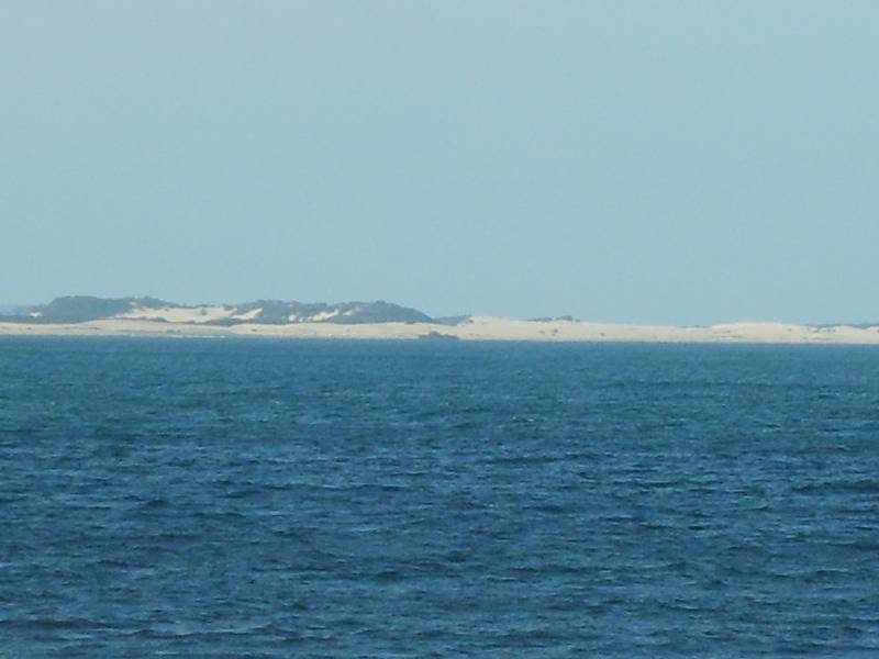 MV Sygna as once seen from southern end of Stockton beach (2007), approximately 8.8km to the south-west